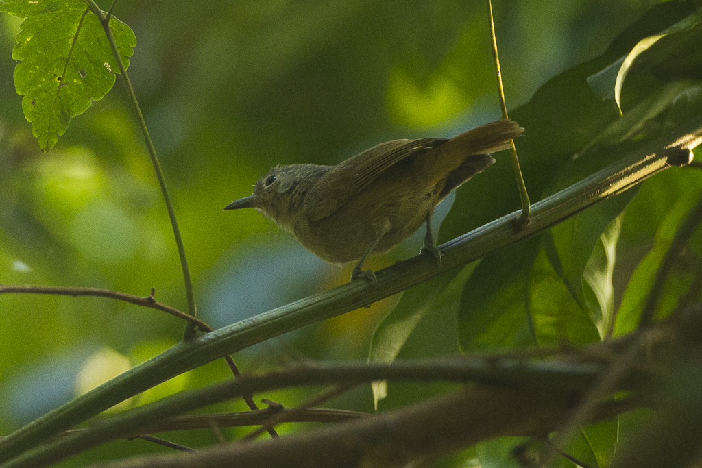 Unicolored Antwren fem - REGUA - Brazil_S4E2612